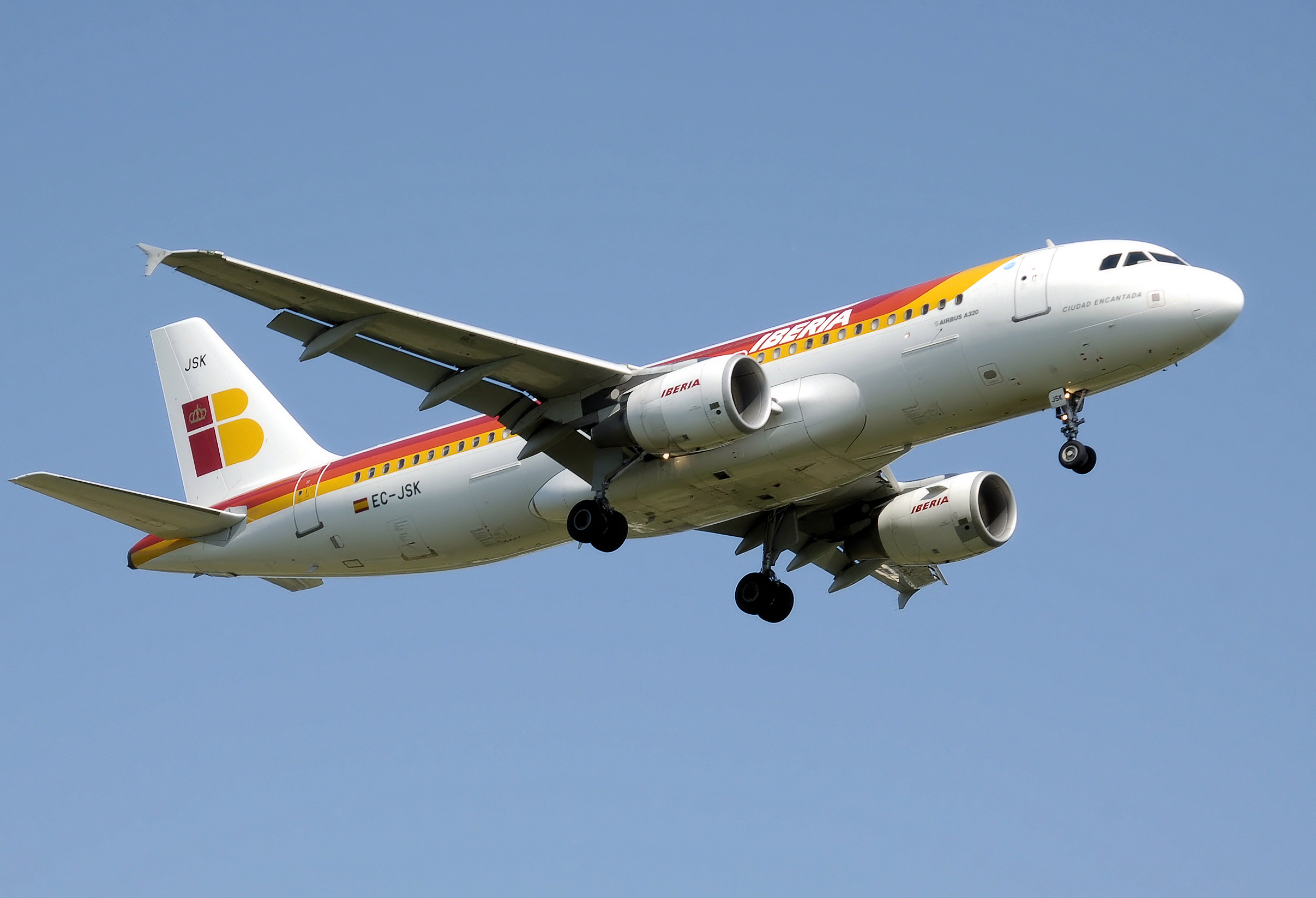 Iberia A320-200 (EC-JSK) lands at London Heathrow Airport, England.